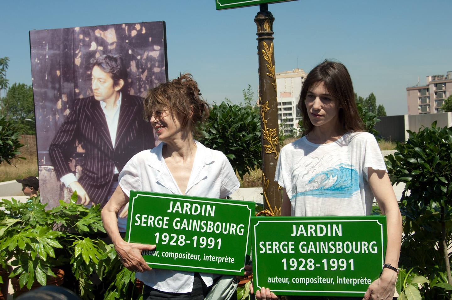 Inauguration of Jardin Serge-Gainsbourg, Paris, 8 July 2010.